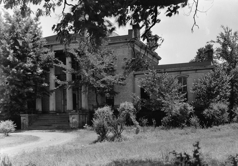 v cropped This file comes from the Historic American Buildings Survey (HABS), Historic American Engineering Record (HAER) or Historic American Landscapes Survey (HALS). These are programs of the National Park Service established for the purpose of documenting historic places. Records consist of measured drawings, archival photographs, and written reports. When reusing please credit: Library of Congress, Prints & Photographs Division, TENN,60-COLUM,1-1 This tag does not indicate the copyright status of the attached work. A normal copyright tag is still required. See Commons:Licensing for more information. This work is in the public domain in the United States because it is a work prepared by an officer or employee of the United States Government as part of that person’s official duties under the terms of Title 17, Chapter 1, Section 105 of the US Code. See Copyright. Note: This only applies to original works of the Federal Government and not to the work of any individual U.S. state, territory, commonwealth, county, municipality, or any other subdivision. This template also does not apply to postage stamp designs published by the United States Postal Service since 1978. (See § 313.6(C)(1) of Compendium of U.S. Copyright Office Practices). It also does not apply to certain US coins; see The US Mint Terms of Use. This file has been identified as being free of known restrictions under copyright law, including all related and neighboring rights. Object location35° 36′ 35″ N, 87° 02′ 46″ W